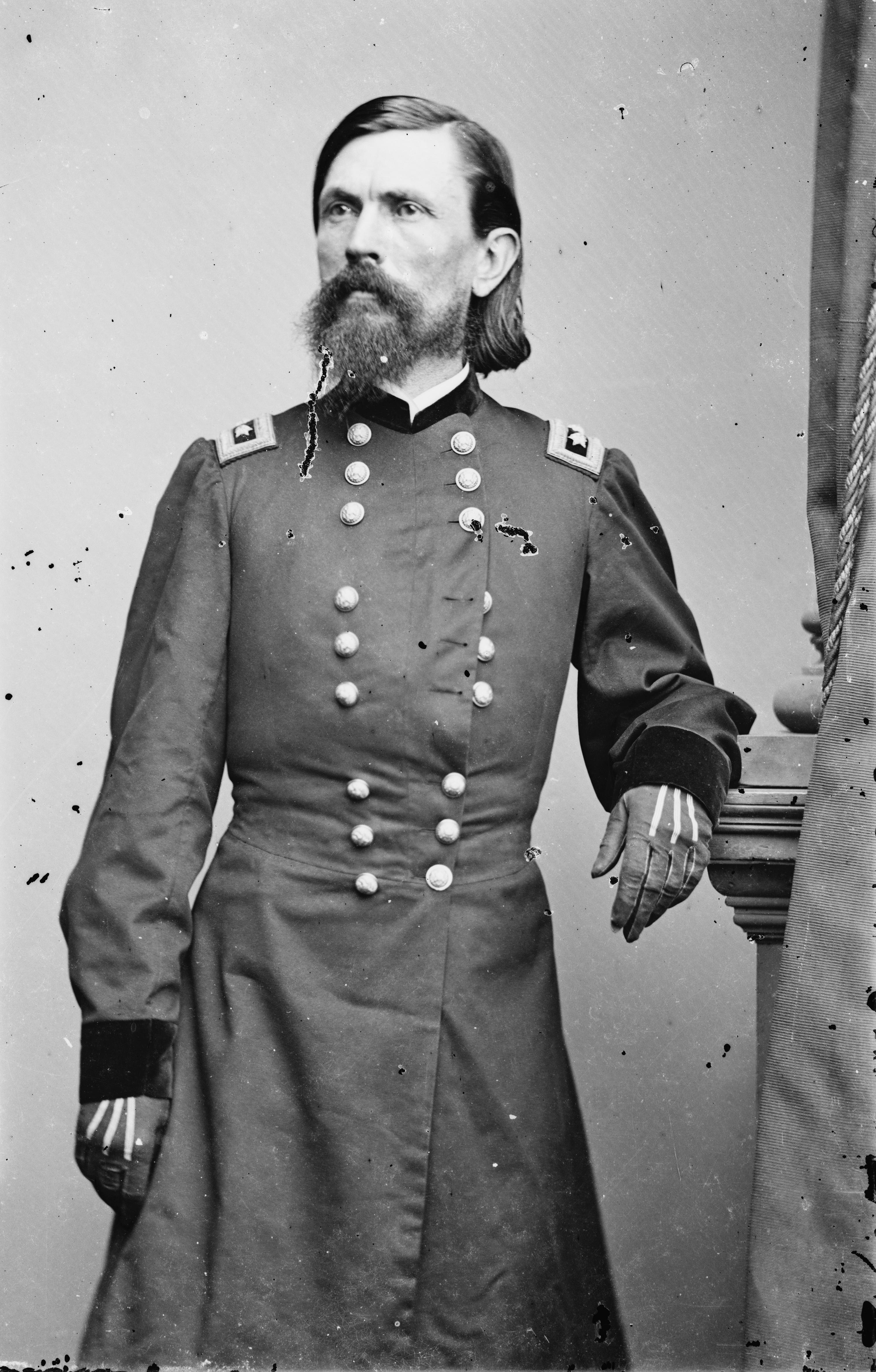 Thomas Leonidas Crittenden. Library of Congress description: "Gen. Thomas L. Crittenden"